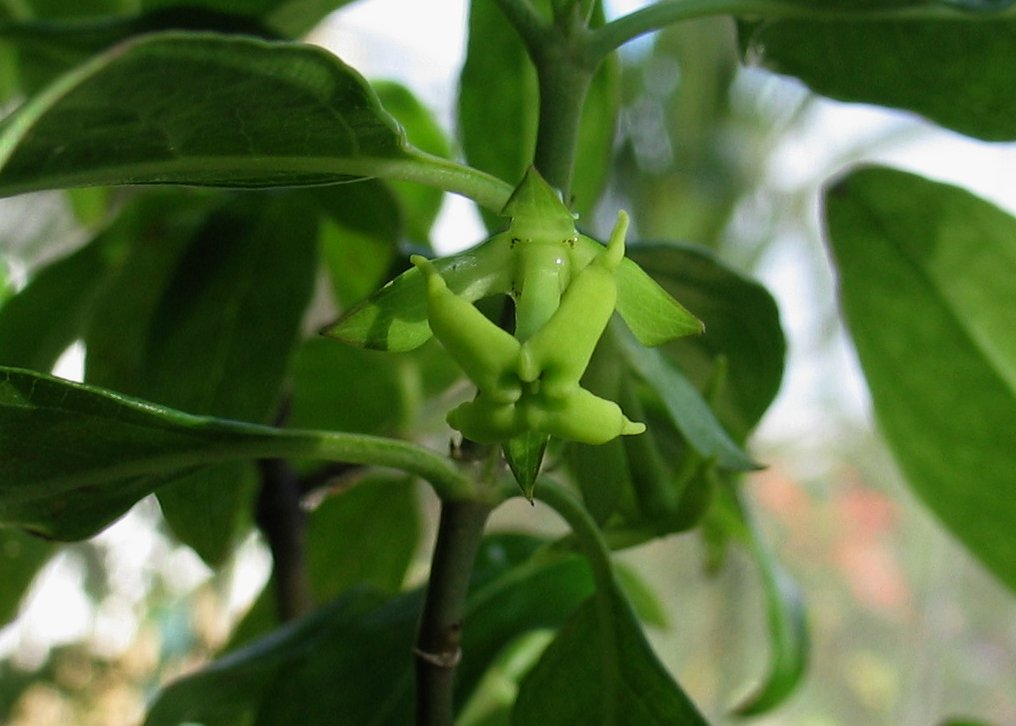 Au [syn. Hedyotis acuminata] Rubiaceae Endemic to the Hawaiian Islands Oʻahu (Cultivated)